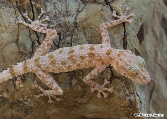 Asaccus elisae at Jannat abad mountain,Tehran, Iran